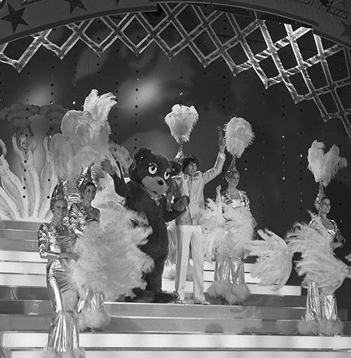 Bella Bear and Ron Brandsteder, in the Dutch television game show Showbizzquiz.